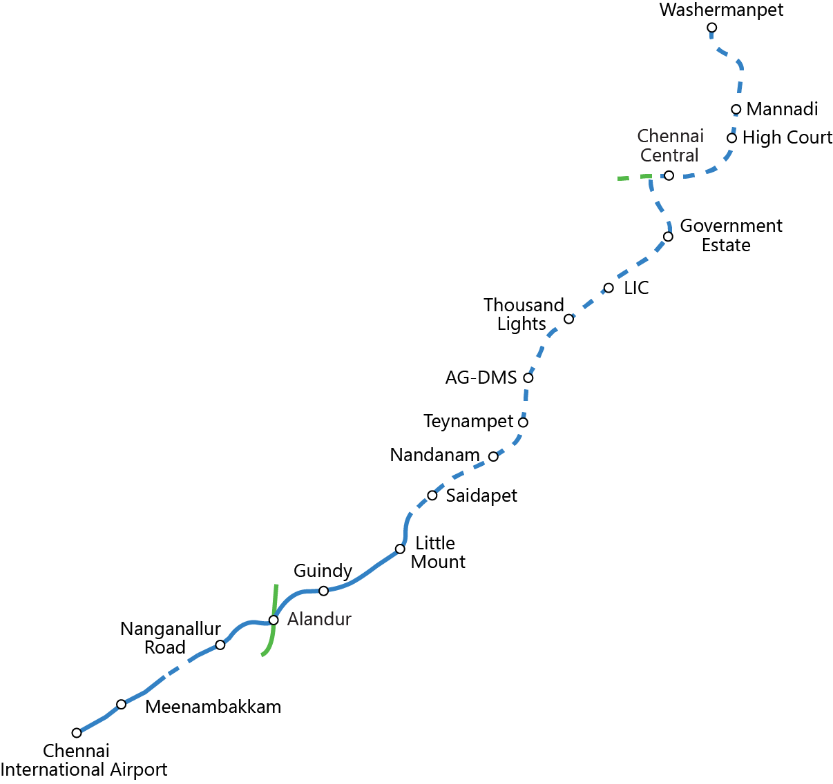 A map of the Chennai Metro Blue Line.